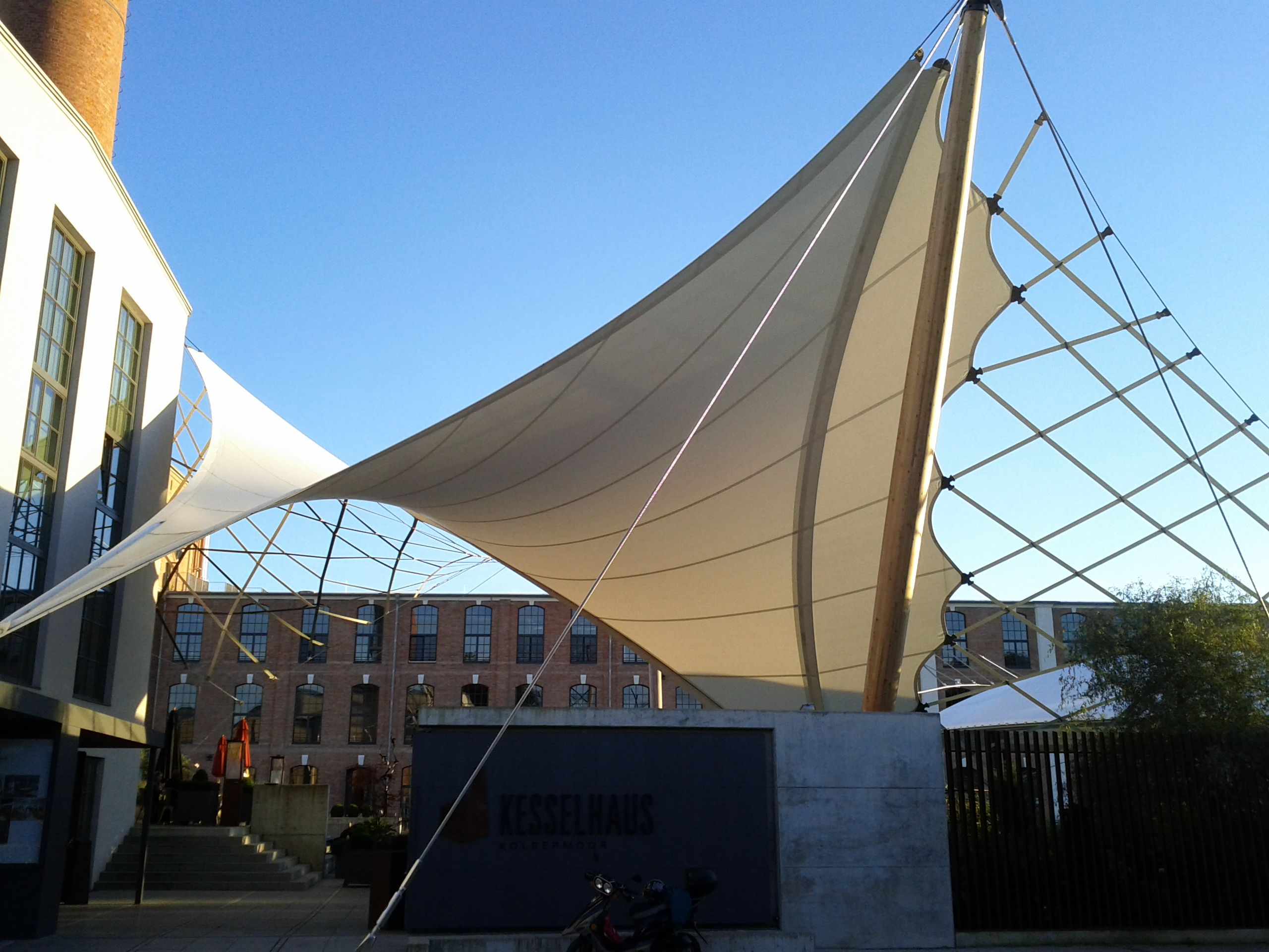 Kesselhaus Kolbermoor